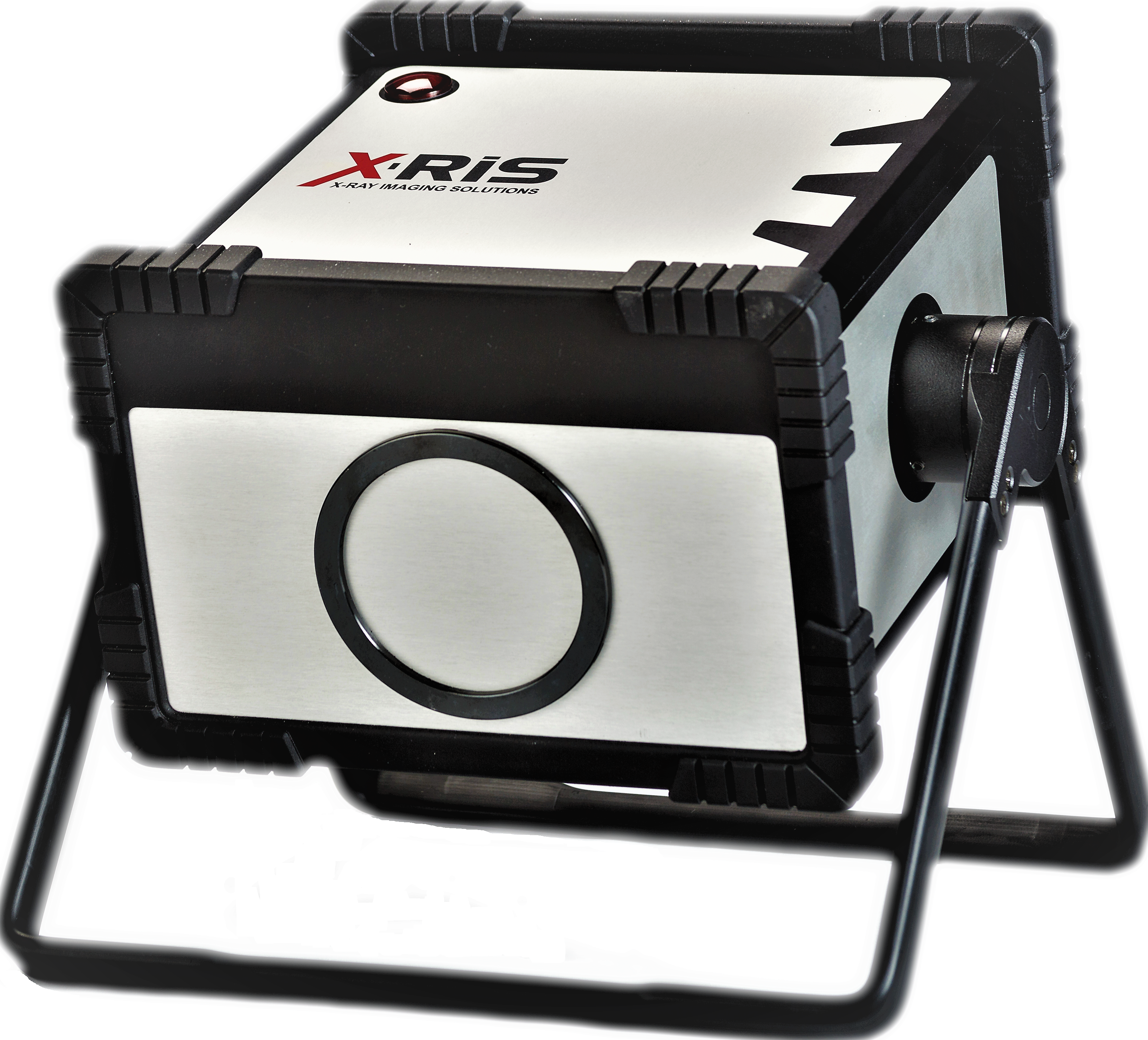 GemX-160 is a portable battery operated X-ray generator. It can have a focal spot lower than 200 µm.